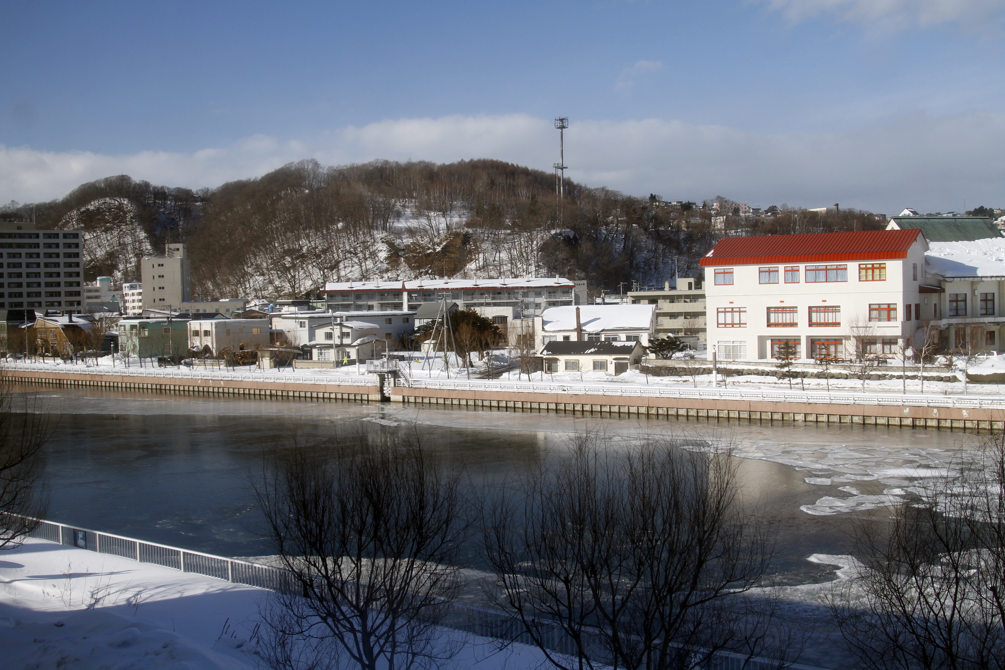 The Abashiri River as viewed from Hokkai Hotel in Abashiri, Hokkaidō, Japan. Canon EOS 7D